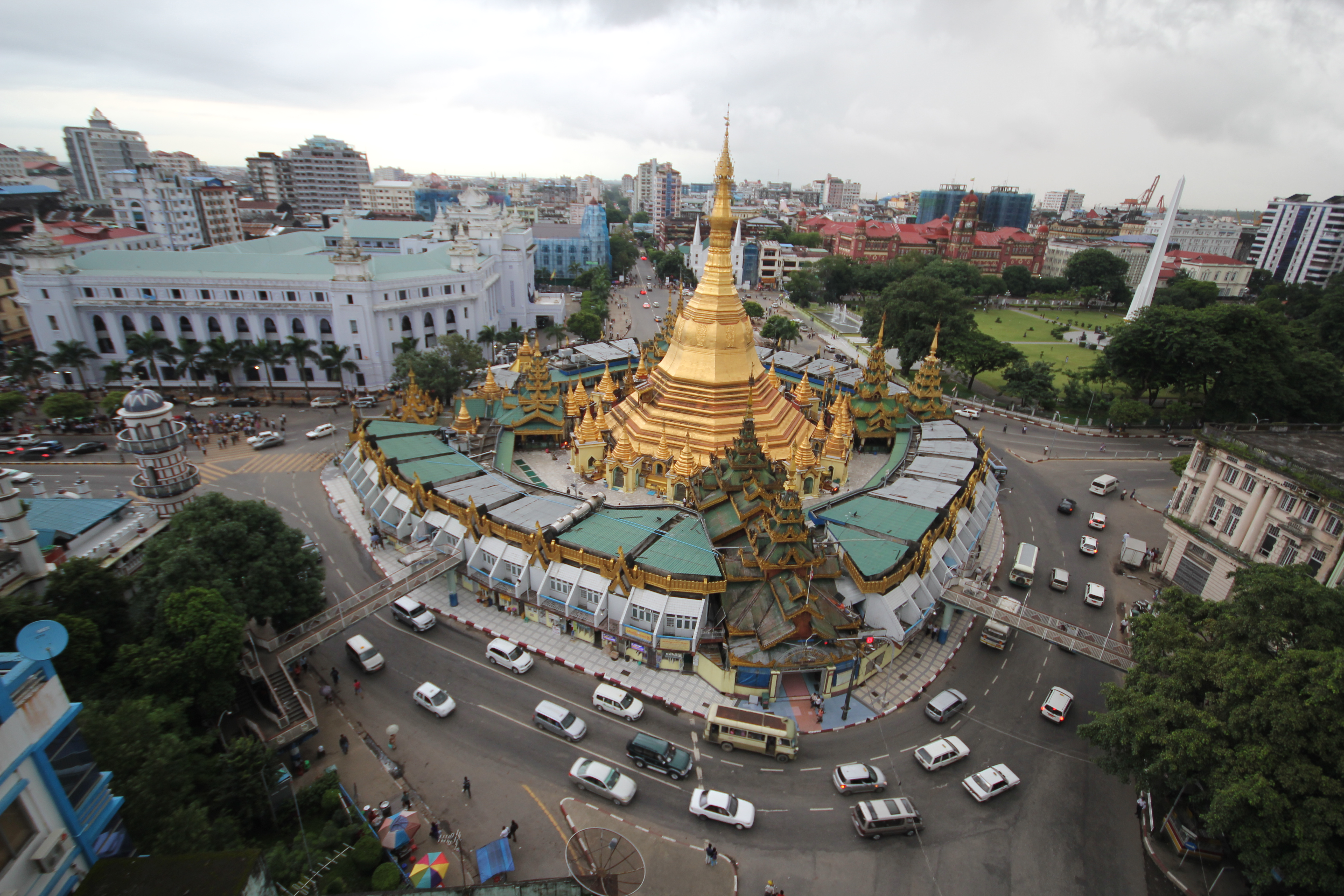 Sule Pagoda and the center of Yangon. မြန်မာဘာသာ: ဆူးလေဘုရား နှင့် ရန်ကုန်မြို့လယ်ခေါင်